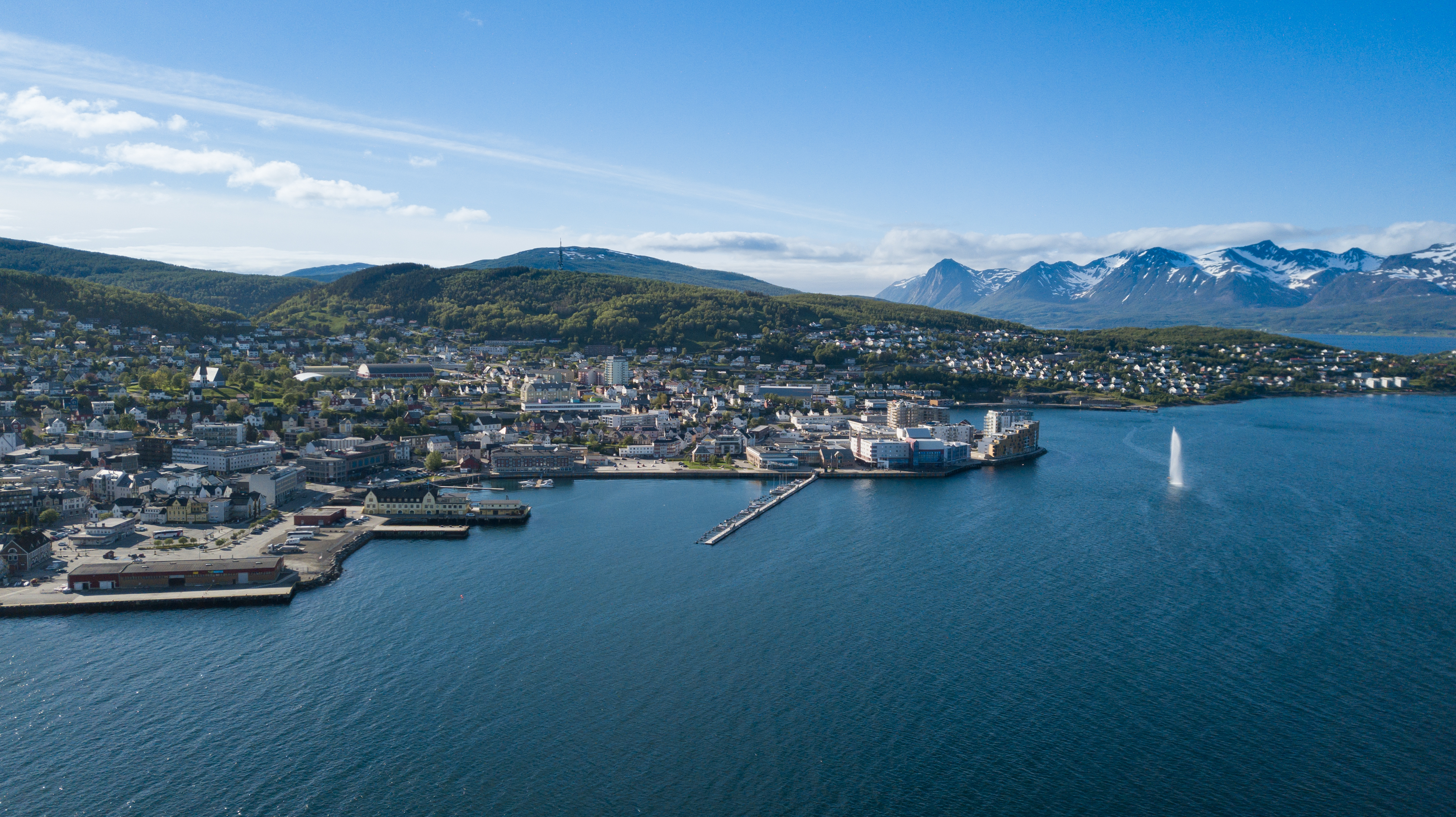 Harstad